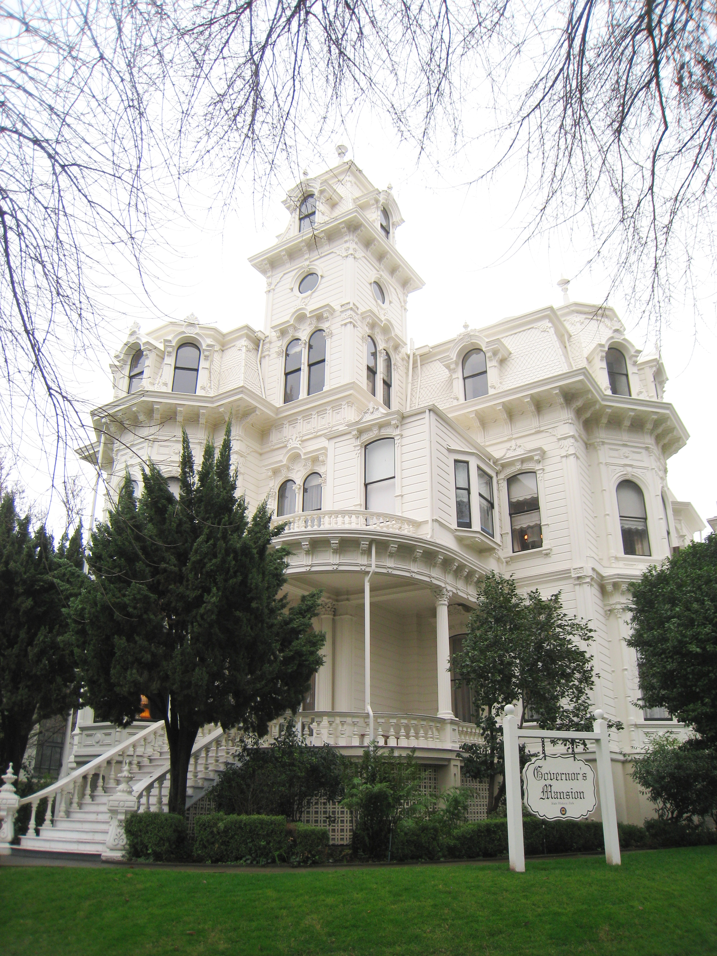 Exterior - Governor's Mansion State Historic Park, 1526 H Street, Sacramento, California, USA. The former governor's mansion, built in 1877 for Albert and Clemenza Gallatin. Photography was permitted without restriction.